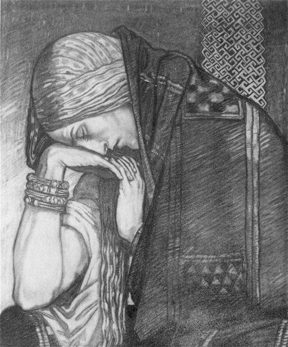 Deirdre of the Sorrows by John Duncan